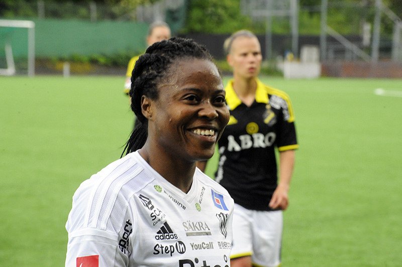 Faith Ikidi